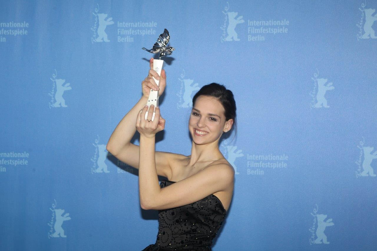 Sara Serraiocco at Berlin film festival 2016